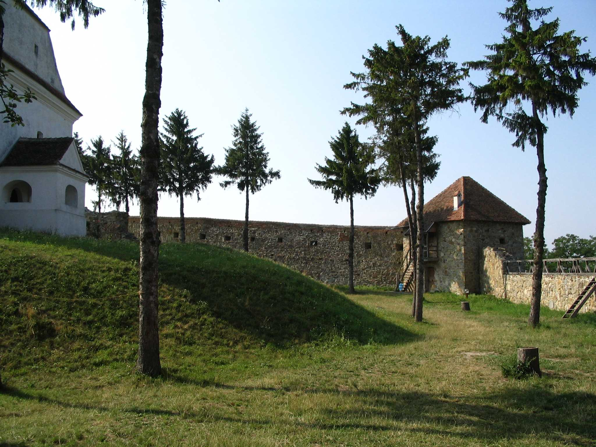 Amateur photo, the author releases all rights.